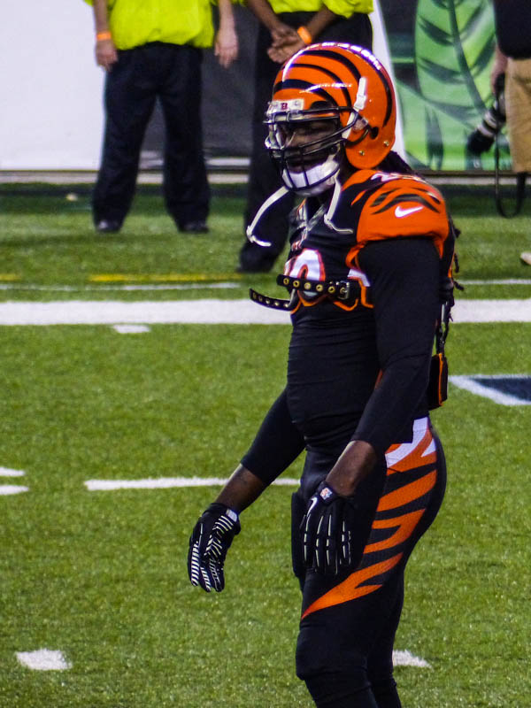 Warming up before Monday Night Football game vs the Pittsburgh Steelers, September 17, 2013